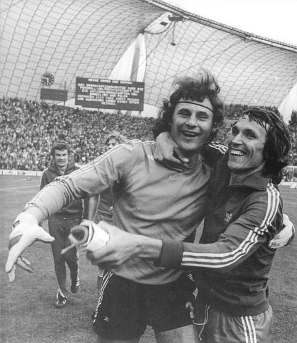 Jan Tomaszewski and Henryk Kasperczak after 3. place match Poland-Brazil, 1974 FIFA World Cup, 6.07.1974. Behind Henryk Wieczorek and probably Jerzy Gorgoń